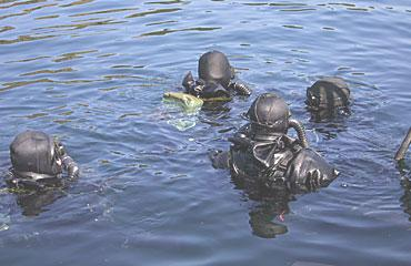 I copied this image from :no:Bilde:Jegere i vann 24159a.jpg in the Norwegian Wikipedia, and brightened it with Paintshop Pro. 07:39, 24 August 2006 User:Anthony Appleyard Norwegian Marinejegerkommandoen frogmen in water. Anthony Appleyard (talk) 22:31, 1 July 2011 (UTC)